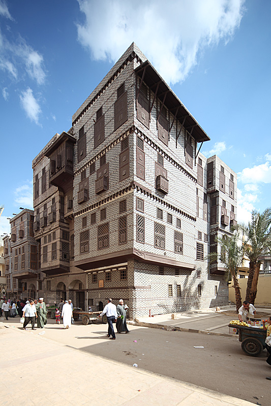 Ramadan house, Rashid, Egypt